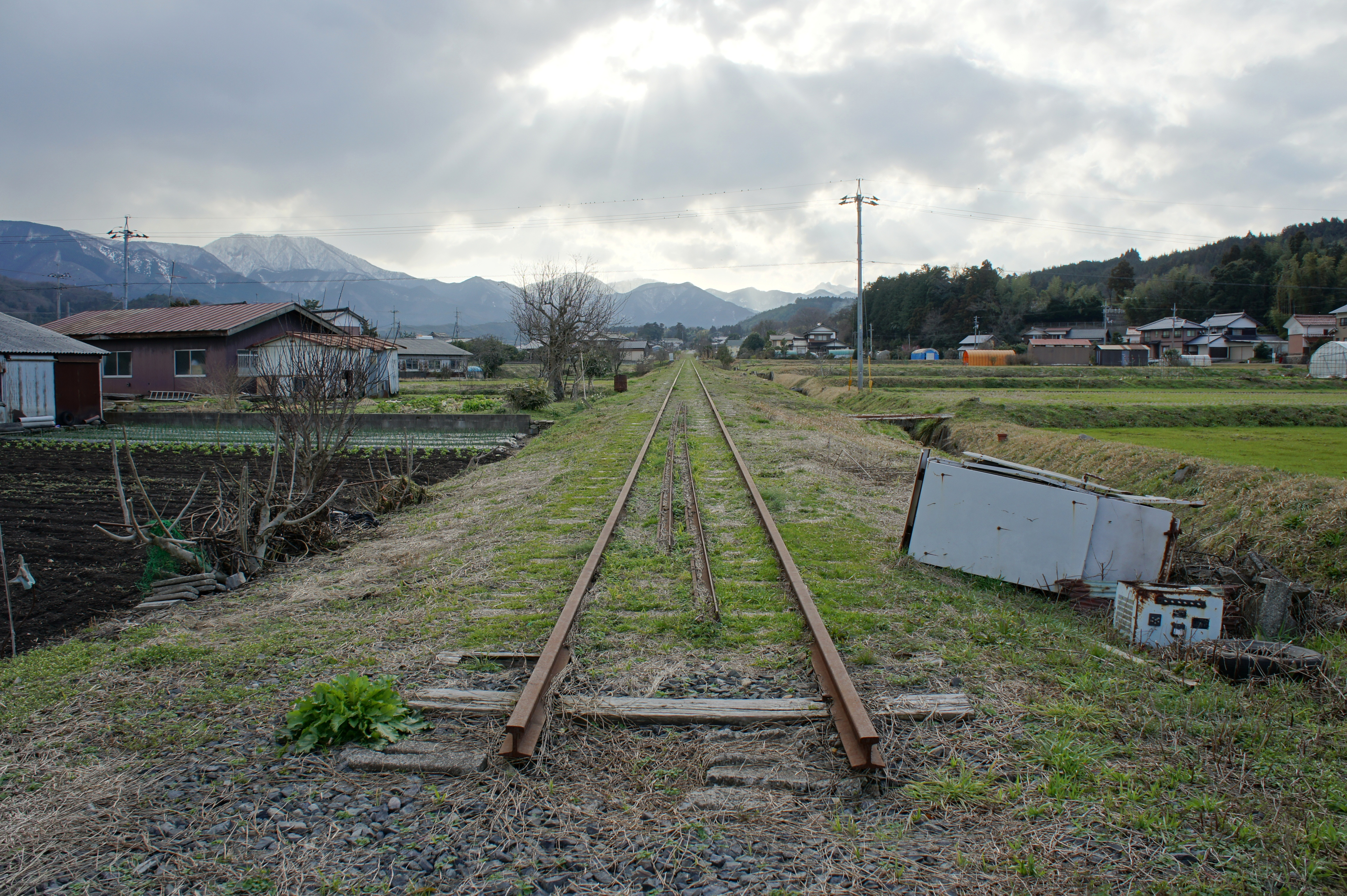 Abolished line trace of the Kurayoshi Line (Kurayoshi, Tottori Prefecture, Japan)